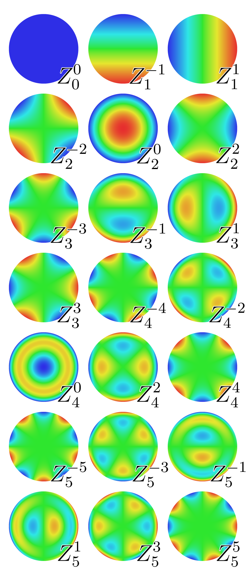 Image of the Zernike_polynomials values